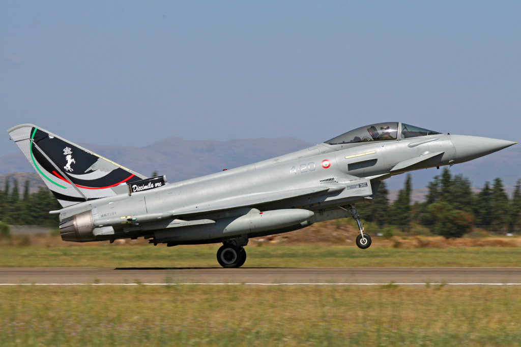 Italian Eurofighter during takeoff